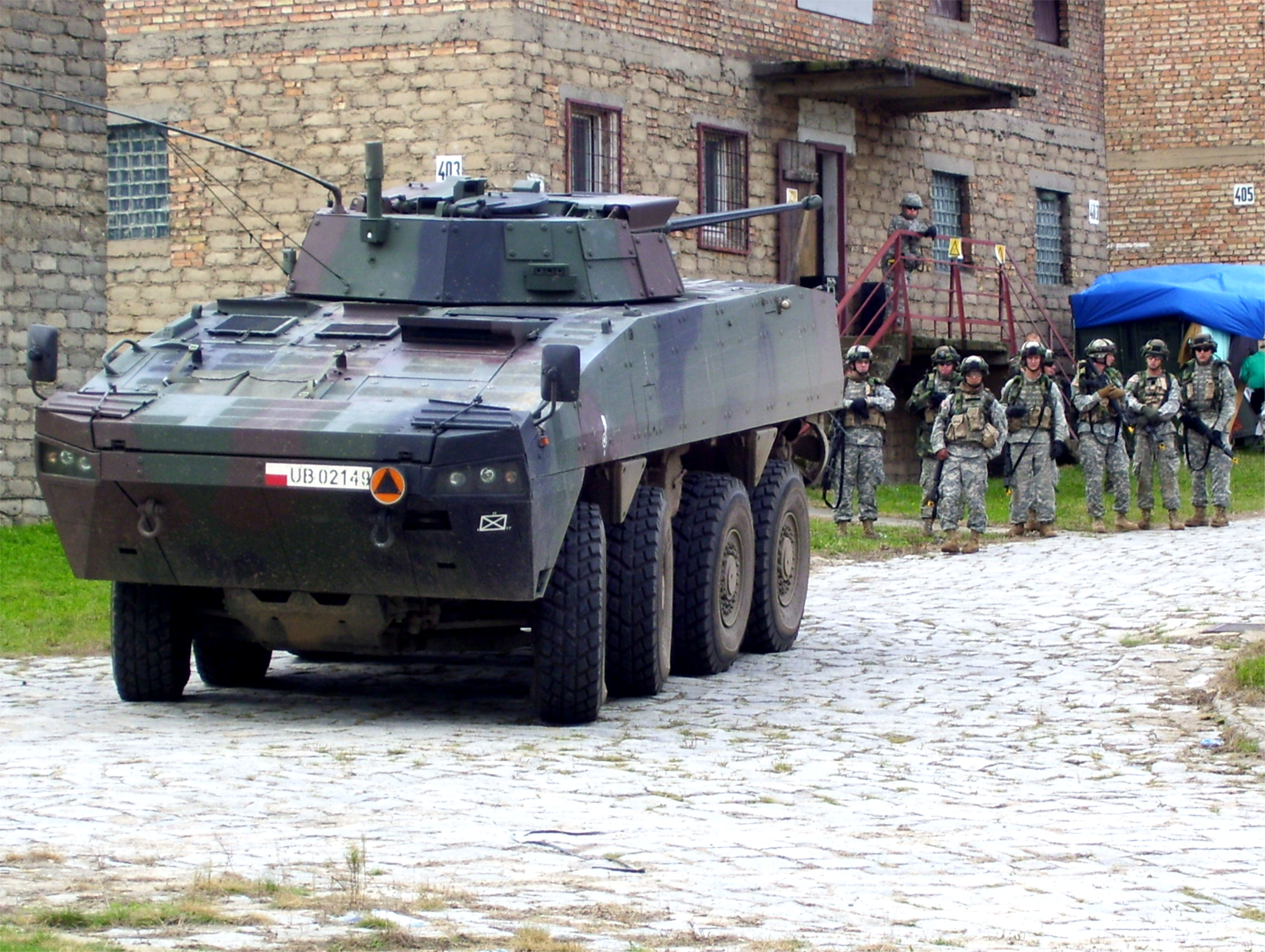 A Polish KTO Rosomak provides support to U.S. Soldiers from Task Force 1-178th Infantry at the Military Operations in Urban Terrain (MOUT) site at the Wendrzyn Training Area here during Immediate Response/Bagram II. The Polish-led exercise joins U.S. Soldiers from Germany and Italy as well as Soldiers from the Illinois Army National Guard and is designed to build on interoperability skills as well as develop new and stronger bonds of friendship.